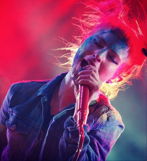 Williams performing as part of Paramore at The Belmont, Austin Texas. March 14th 2013